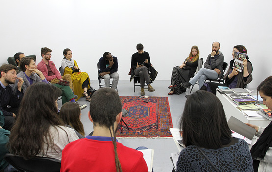 Roaming Academy - CINÉTRACTS BY OTHER MEANS, NOTES FROM TEHRAN, Sazmanab, Apr 2015